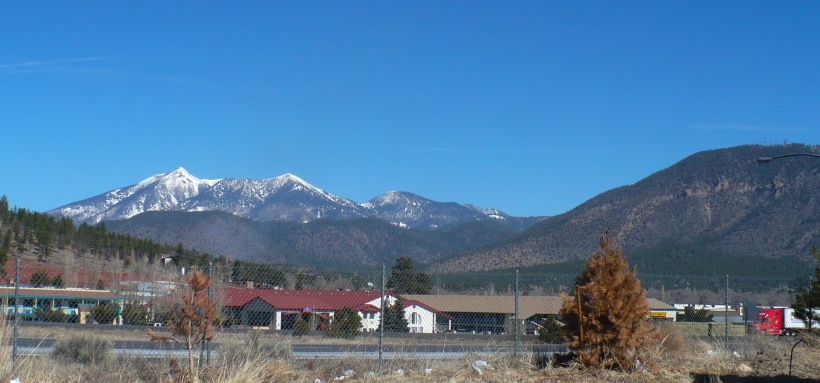 Flagstaff, Arizona and the San Francisco Peaks